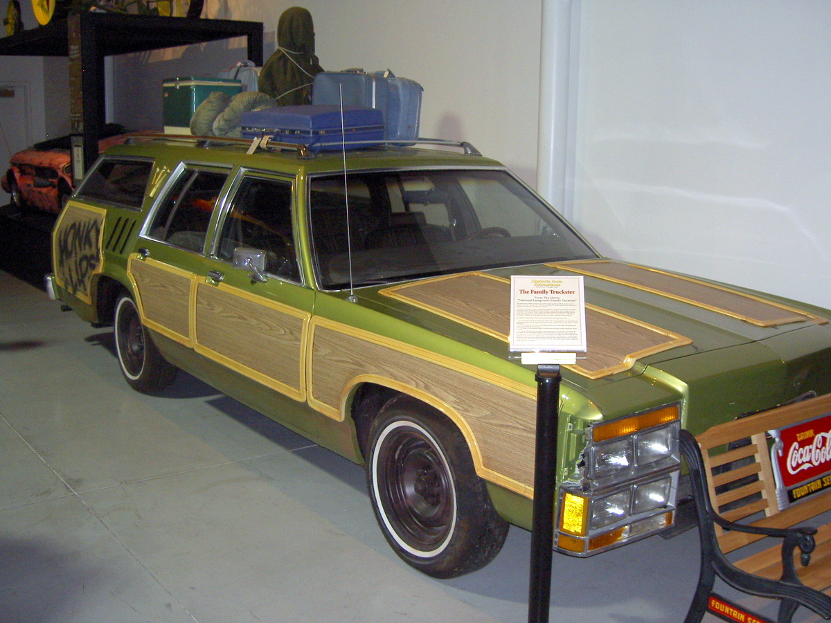 The Family Truckster from the 1983 movie National Lampoon's Vacation. Not sure yet if this is screen used or just a replica. Located at the Historic Auto Attractions museum in Roscoe, Illinois. The car itself is a modified 7th generation Ford Country Squire.